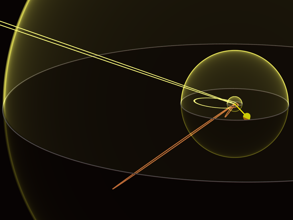 Comparison of sizes of lengths with order of magnitude 1e14m: light month shell (largest yellow sphere with Comet 1910 A1's orbit passing through top left); Hyakutake's orbit (long orange extreme ellipse); light week shell (inner yellow sphere with yellow Vernal point arrow as radius); and Sedna's orbit (yellow ellipse inside the light week shell). Shorter 1e13 m distances are: comet Hale Bopp's orbit (faint small orange ellipse below); and one light-day (smallest yellow spherical shell). All to scale. No transparency version.